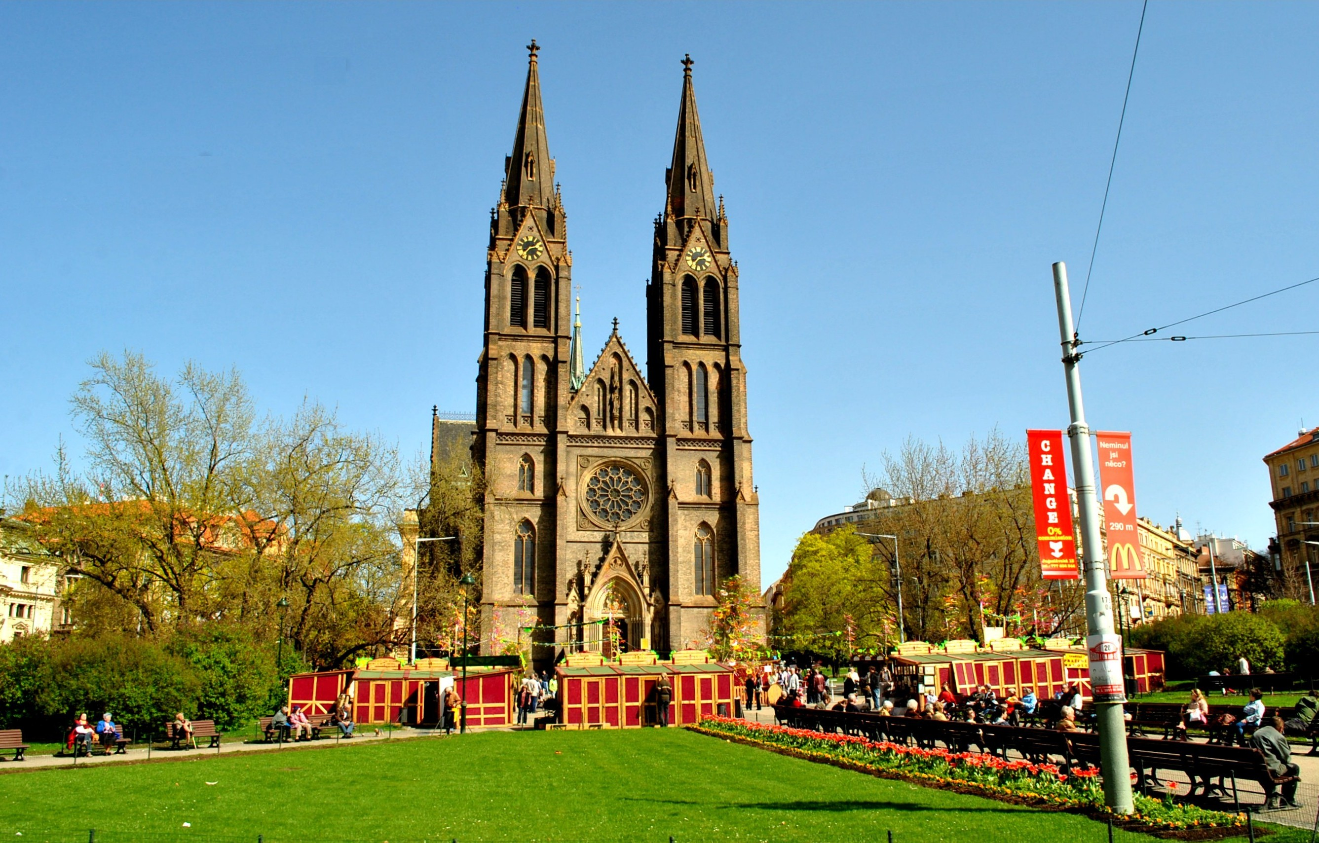 St. Ludmilla Church on the Náměstí Míru (Peace Square). Located in Vinohrady district, Prague, Czech Republic.